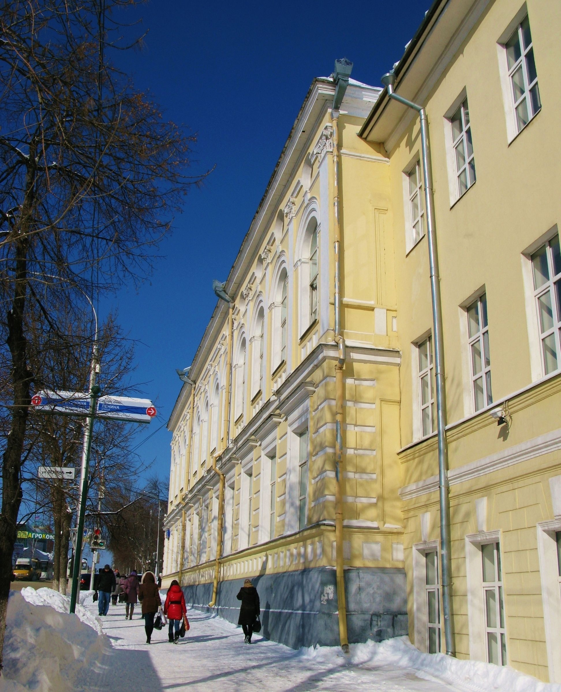 academia in Ufa